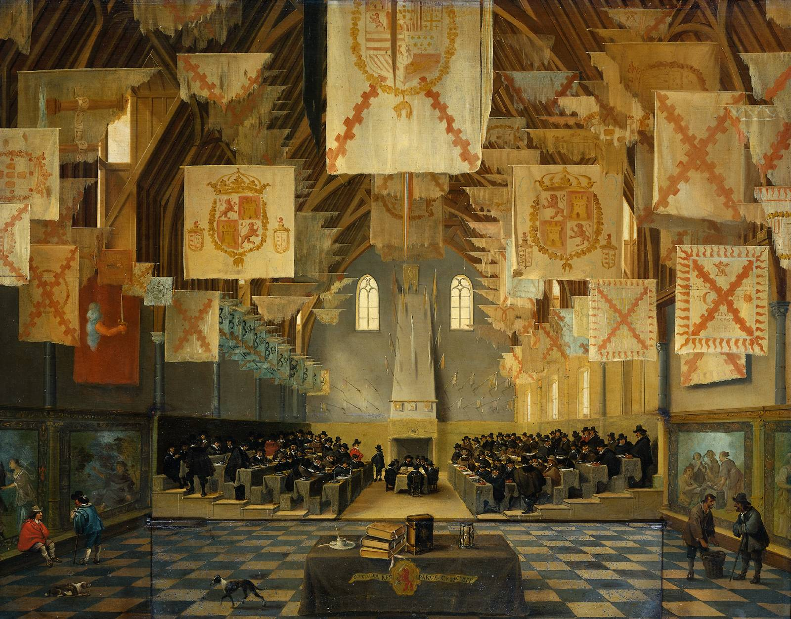 Great Assembly of the States-General in 1651. The painting consists of a 52 × 66 cm wooden panel with attached to it a smaller 9 × 42 cm copper plate. When this plate is raised the view on the Great Assembly is obscured by a wall of paintings (see File:Bartholomeus van Bassen - The Great Hall of the Binnenhof in The Hague - WGA6277.jpg).